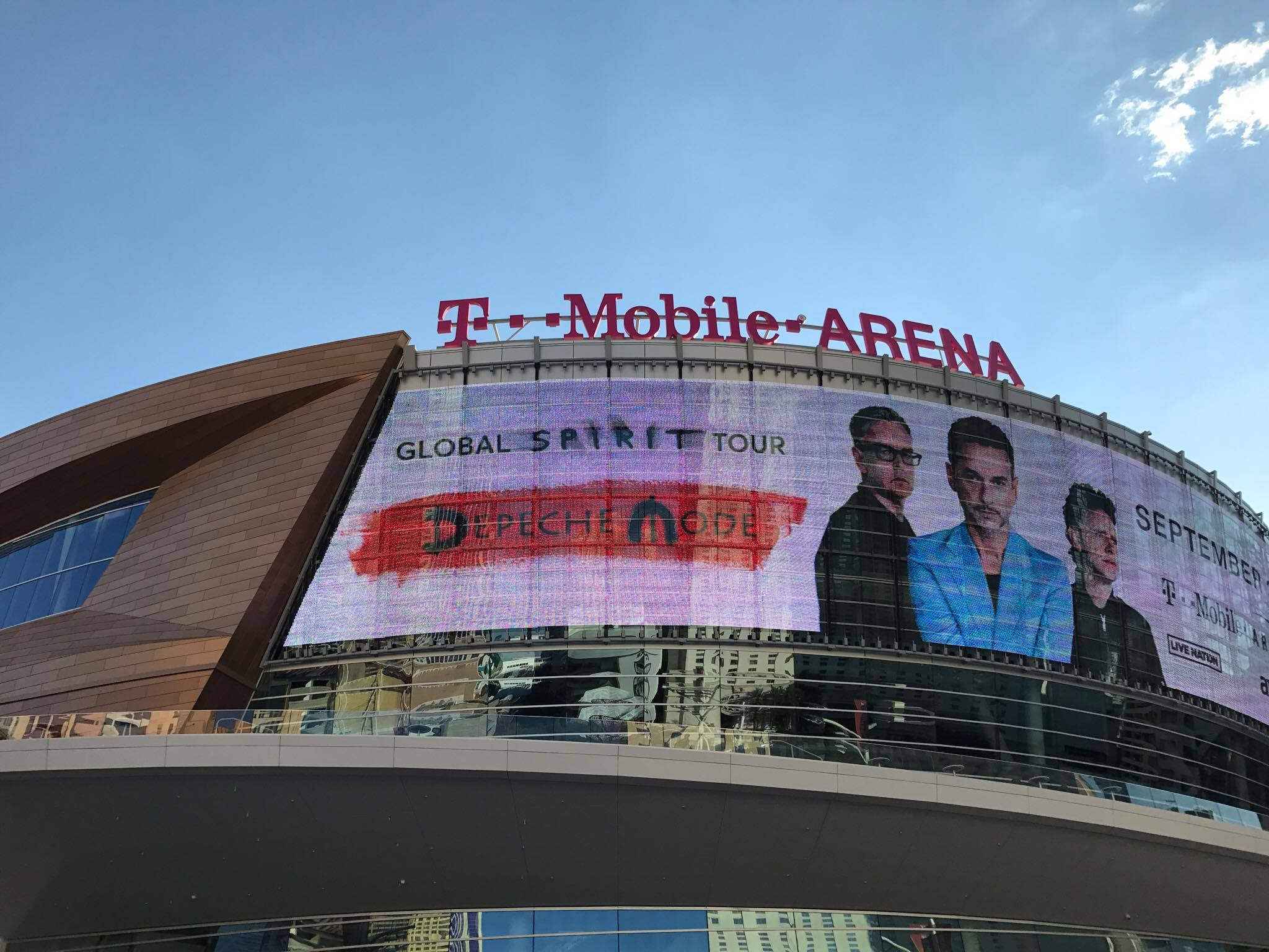 T-Mobile Arena in Las Vegas NV